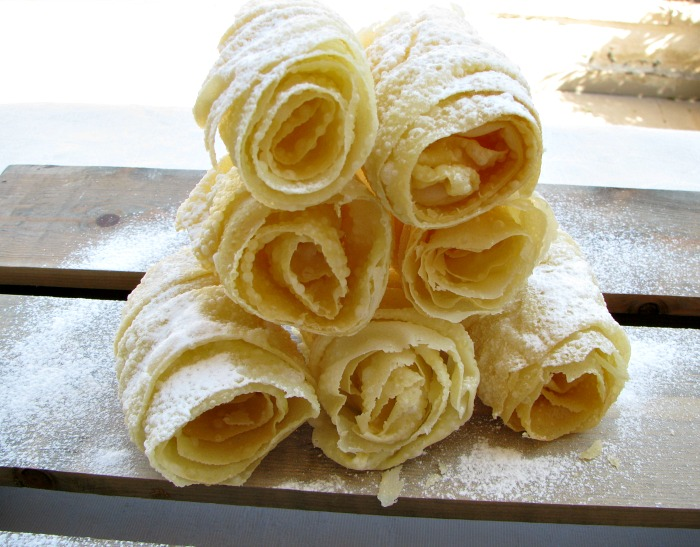 are traditional Jewish pastries. They are the Sephardic equivalent to the Ashkenazi hamantashen. Specifically, a fazuelo is a fried thin dough made of flour and a large number of eggs.